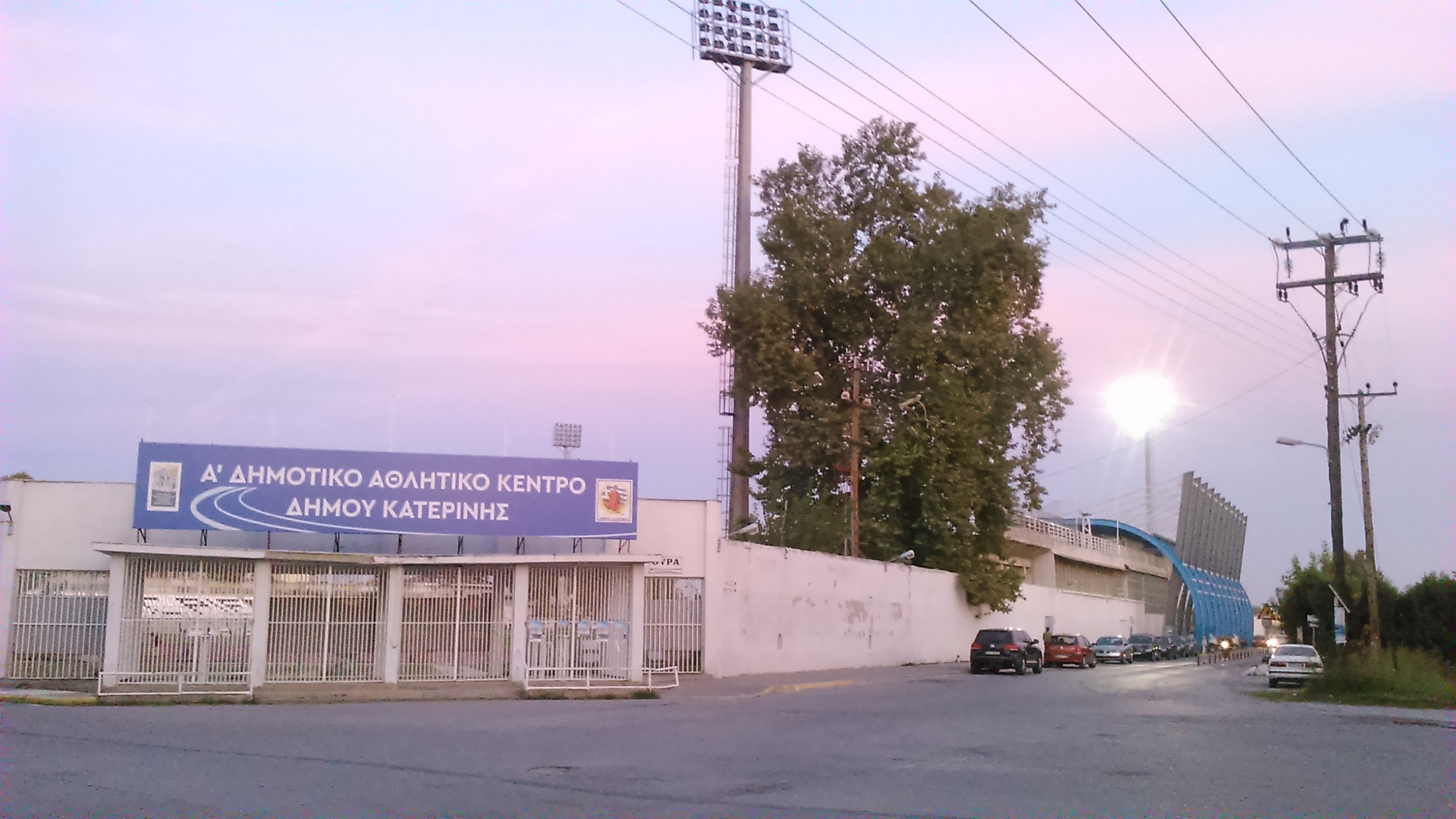 Picture taken with Sony Xperia